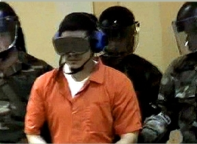 Jose Padilla at the Navy Consolidated Brig, Charleston, South Carolina